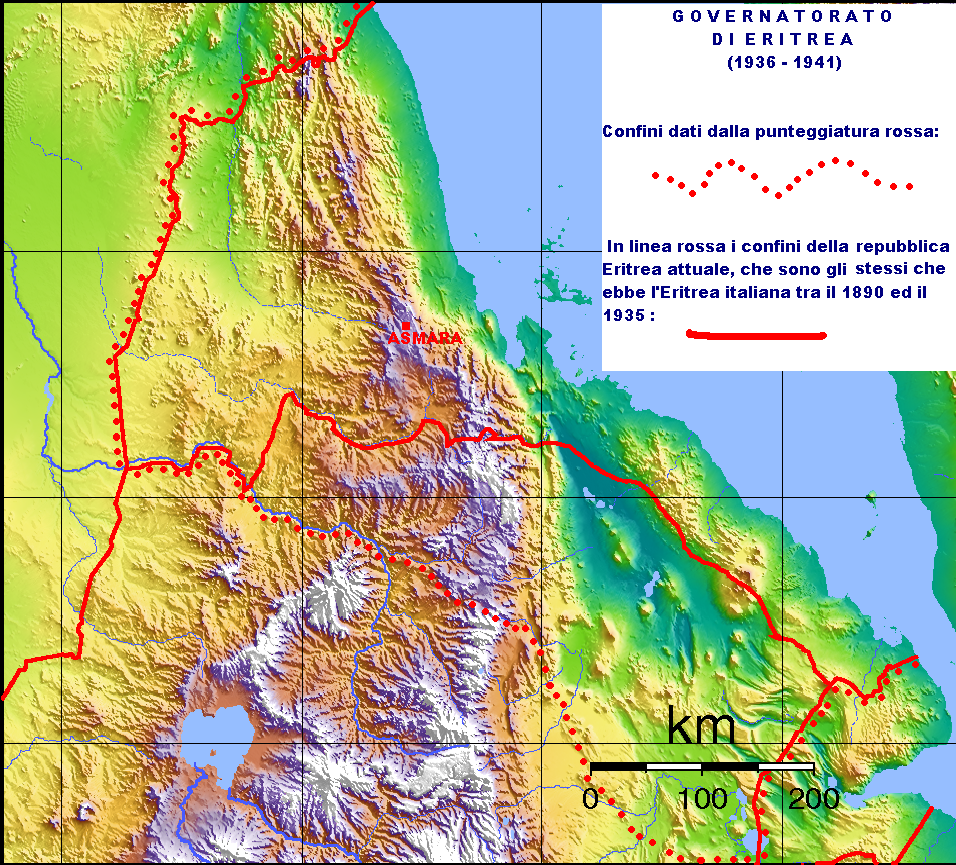 Map of the Italian "Governatorato di Eritrea", that lasted from 1936 to 1941. Work done on original map (File:Eritrea Topography.png) from wikipedia commons about Eritrea topography. Added data with my software. The borders of "Governatorato di Eritrea" are those (in red line) of actual Eritrea + those within the red dots made by me on the south-east of actual Eritrea